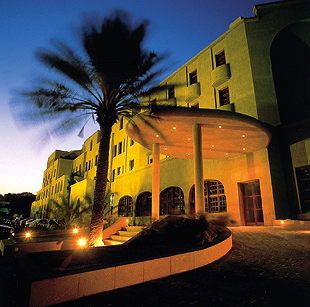 Refurbishment of “Grande Albergo Delle Rose” Hotel in Rhodes